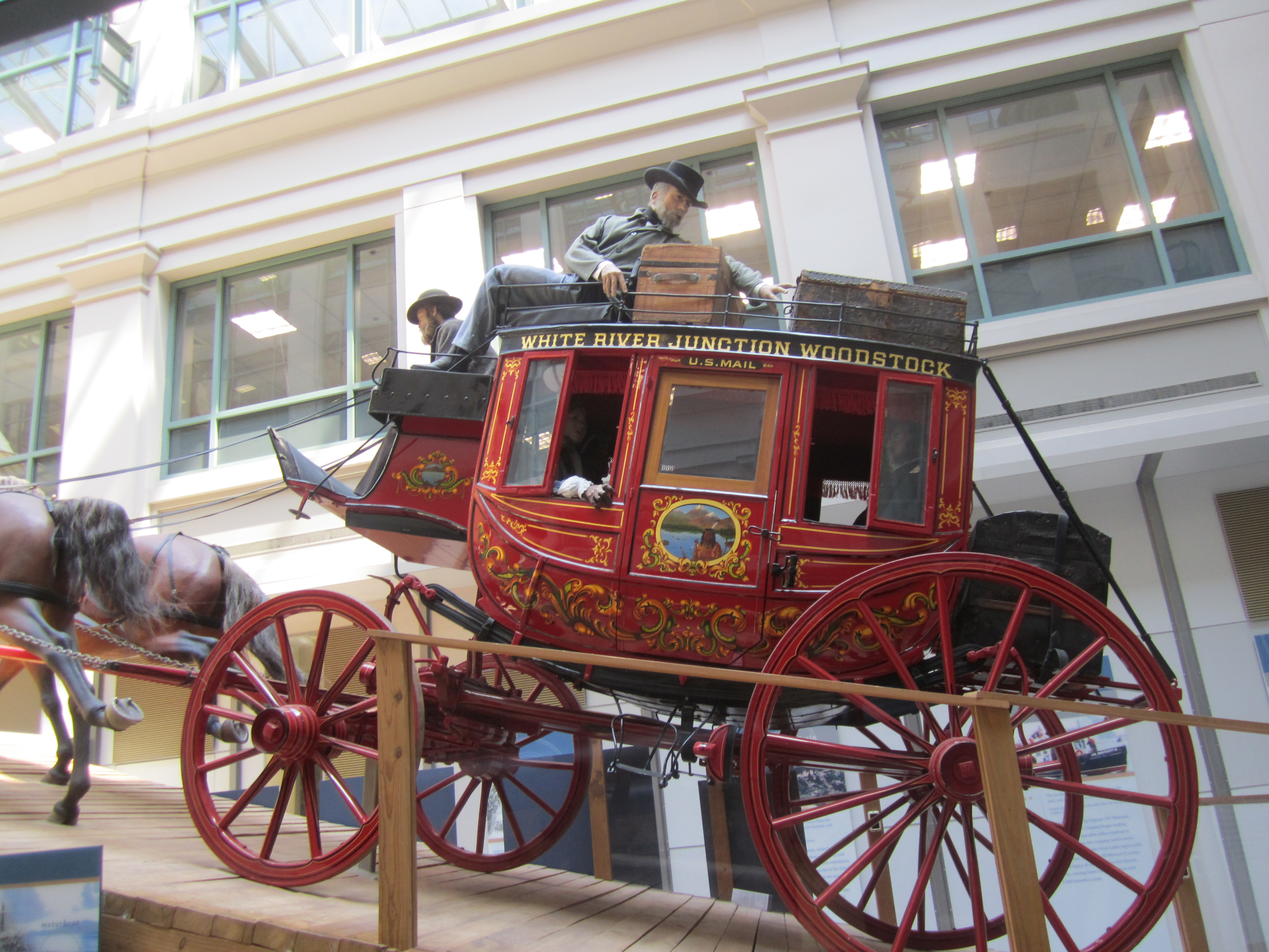 I took photo with Canon camera of stagecoach carrying mail at National Postal Museum. U.S. gov. no copyright